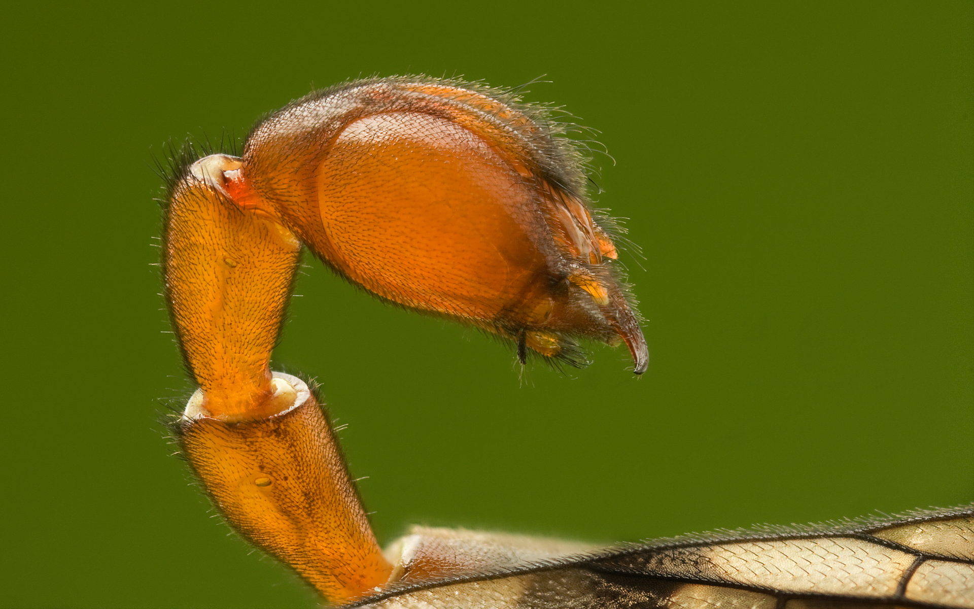 Scorpion Fly (Panorpa communis) Panorpa is a genus of scorpionflies that is widely dispersed in the Northern hemisphere.